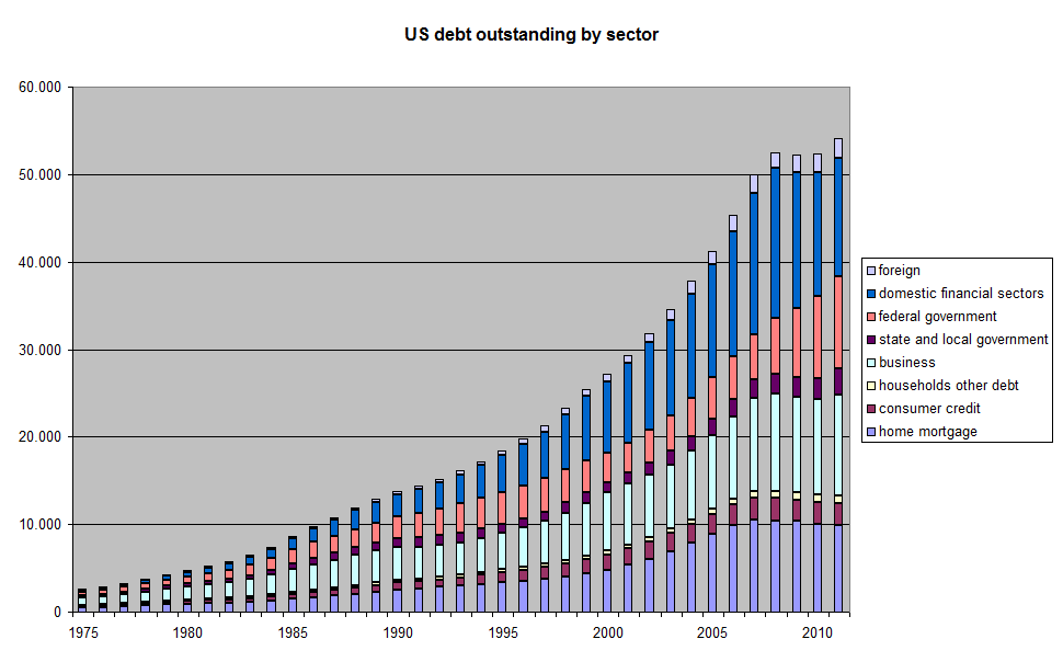 Total debt outstanding in the US, by sector. Source: US Federal Reserve, report Z.1/D.3. Used on Kredietcrisis.